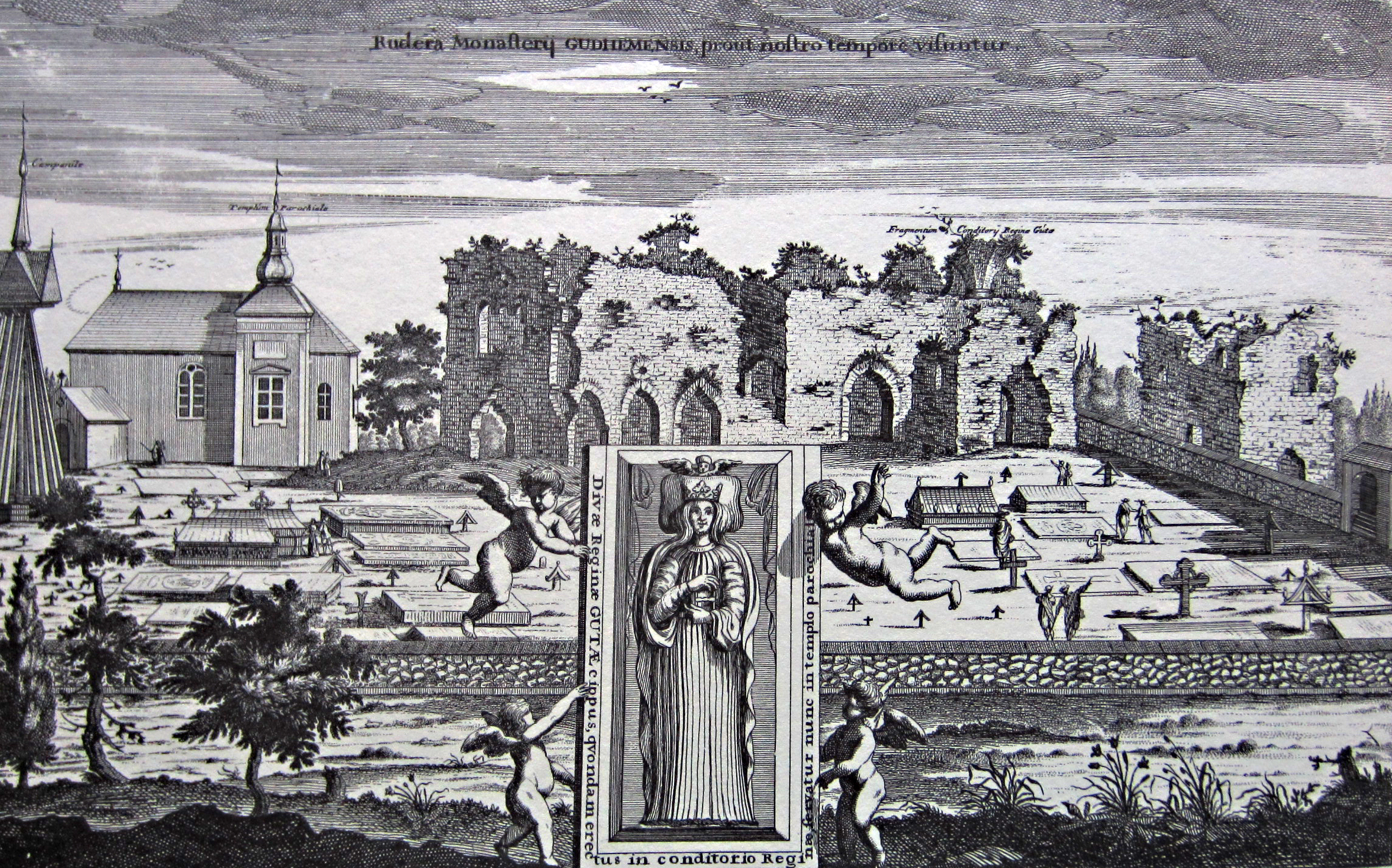 Gudhem nunneries Sweden